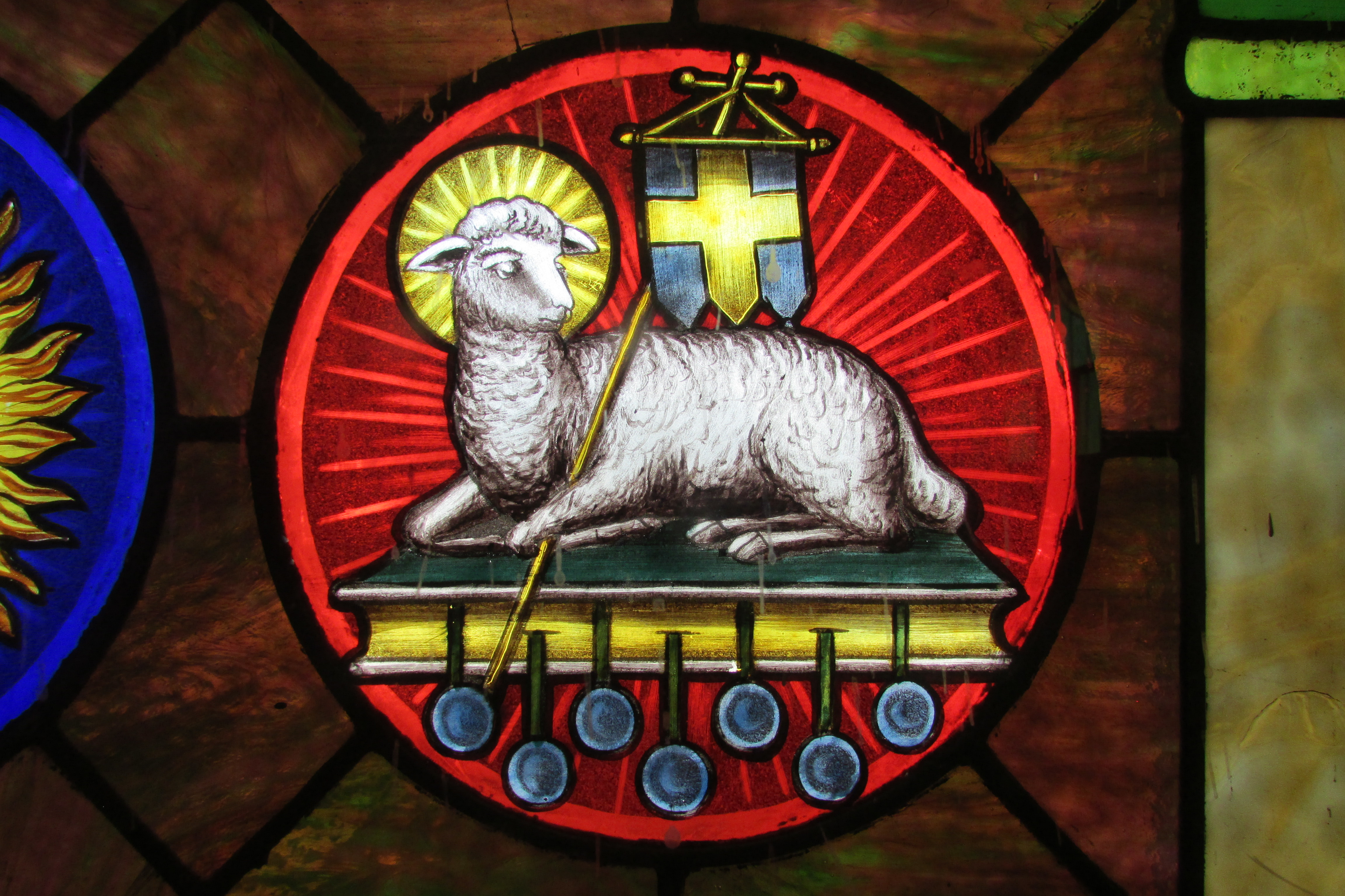 Agnus Dei in Stained glass, Sacred Heart Catholic Church, 204 N Ohio St, Wanatah, IN